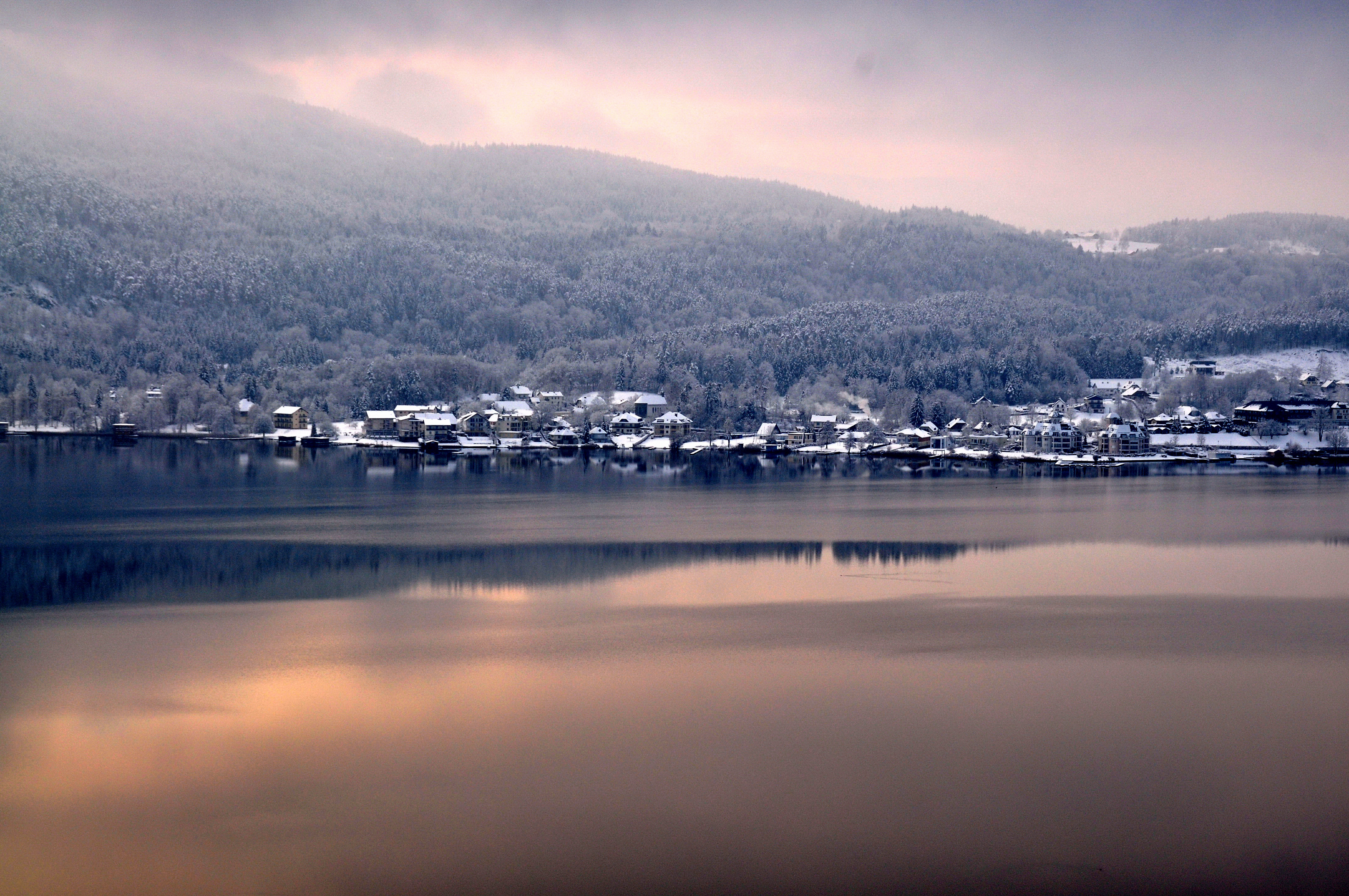 Winterly Unterdellach, municipality Maria Wörth, district Klagenfurt Land, Carinthia, Austria, EU